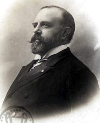 Ioannis Pesmazoglou, Greek banker, economist and politician